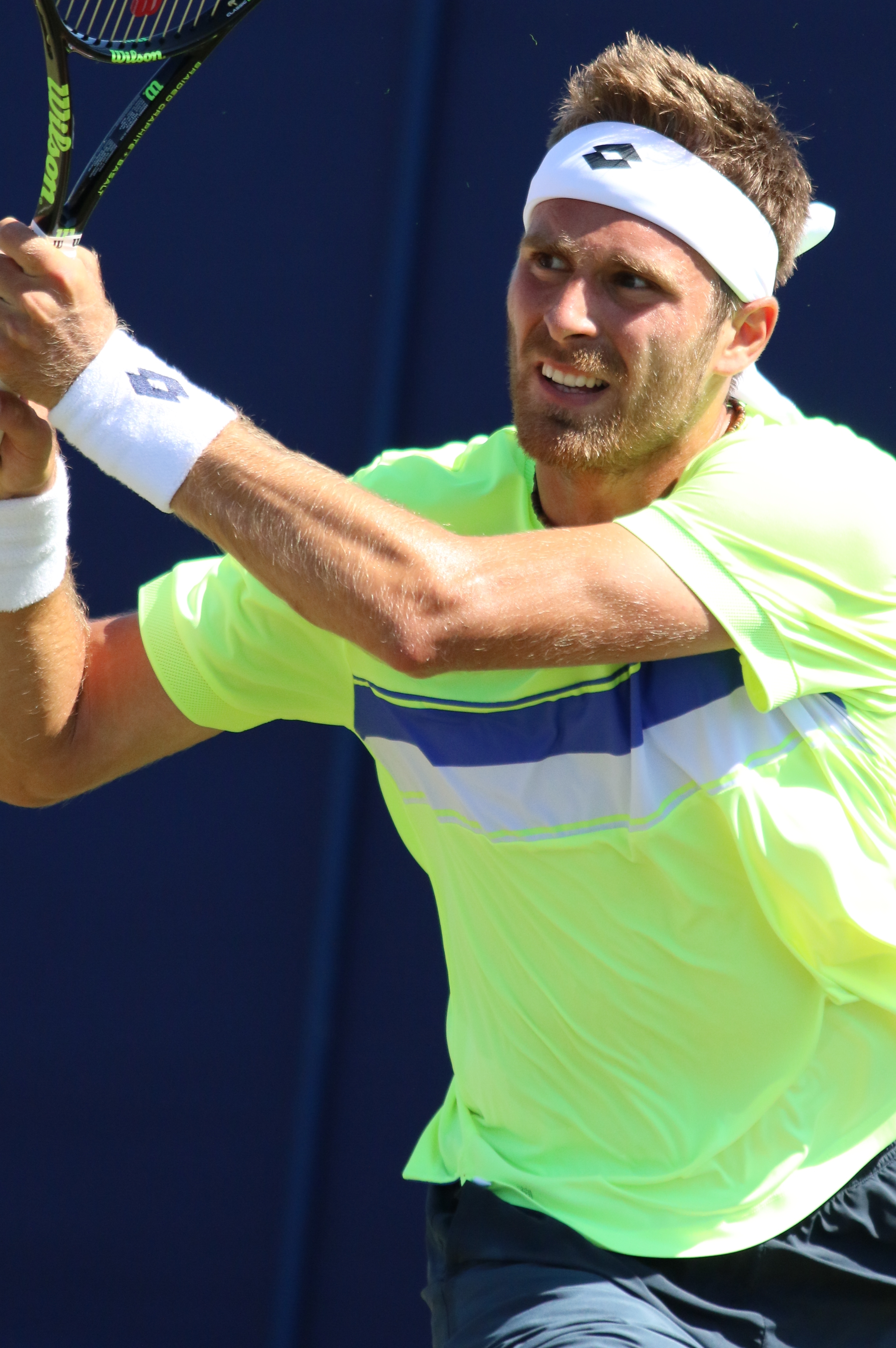 Norbert Gombos - Eastbourne 2017